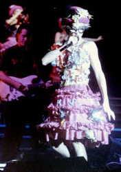 Wembley Stadium Londen Engeland juli '87